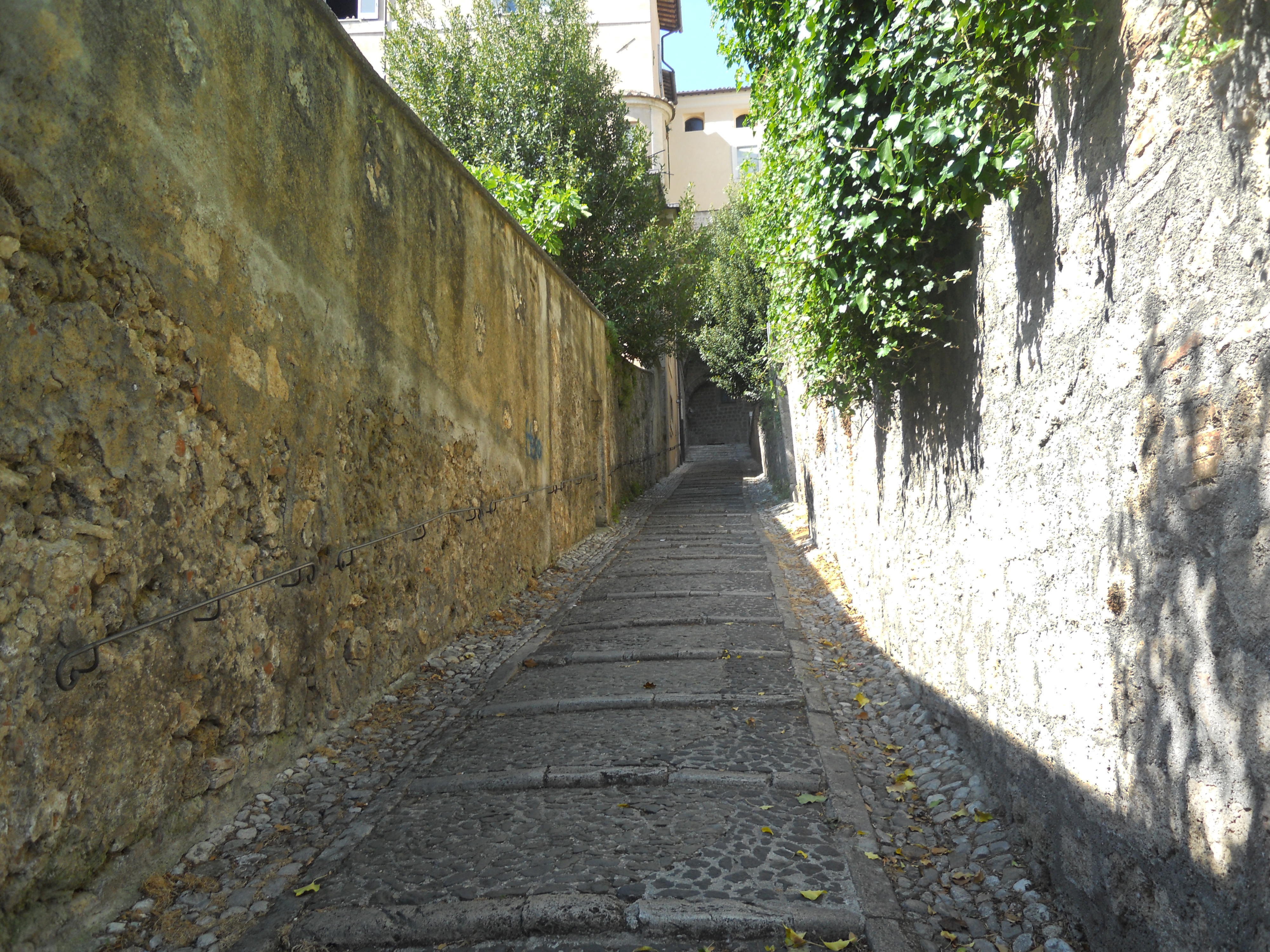 Via dell'Episcopio - Rieti, Italy